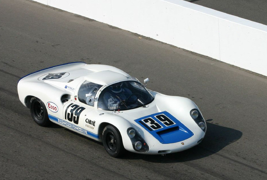 1967 Porsche 910 at the 2004 Watkins Glen SVRA